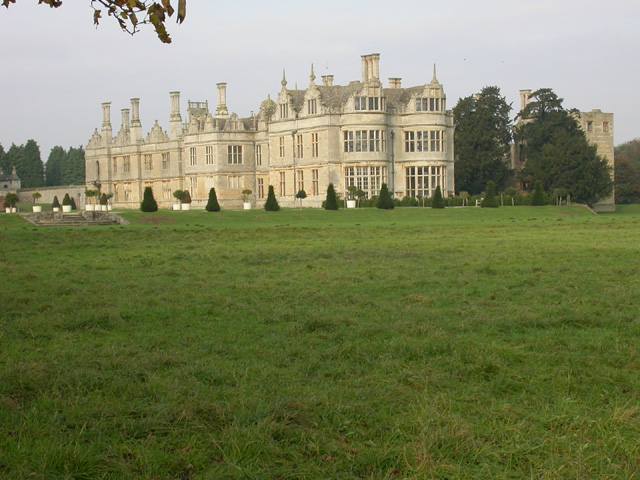 Kirby Hall